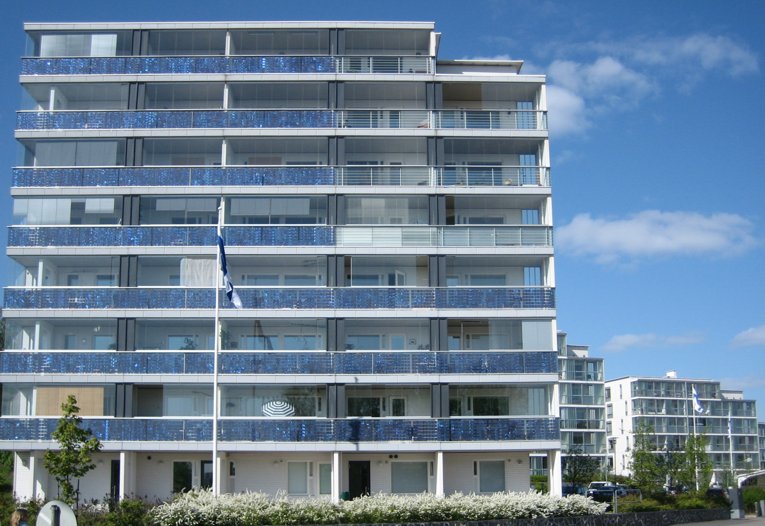 Solar panels are integrated to a block of flats in Latokartano ecological housing area in Viikki area, Helsinki, Finland.